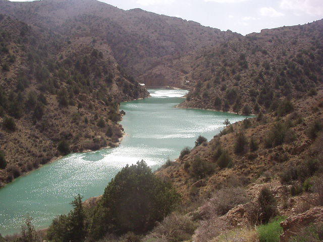 Walli Tangi, Urak Valley, in Balochistan, Pakistan.